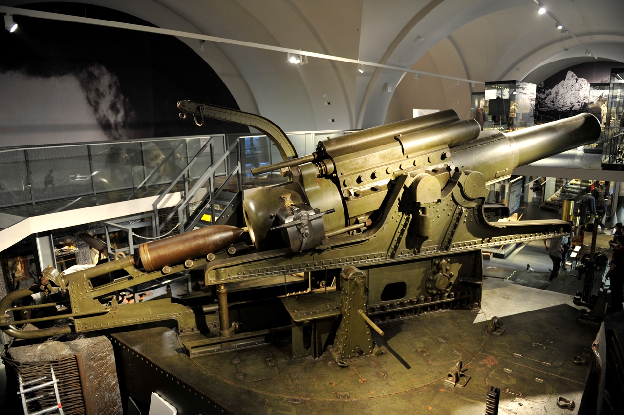 Photograph of Škoda 380 mm Model 1916 howitzer, at the Heeresgeschichtliches Museum, Vienna, Austria. Although the lower portion cannot be seen (it is recessed into the floor), the gun is mounted on a self-propelled carriage.